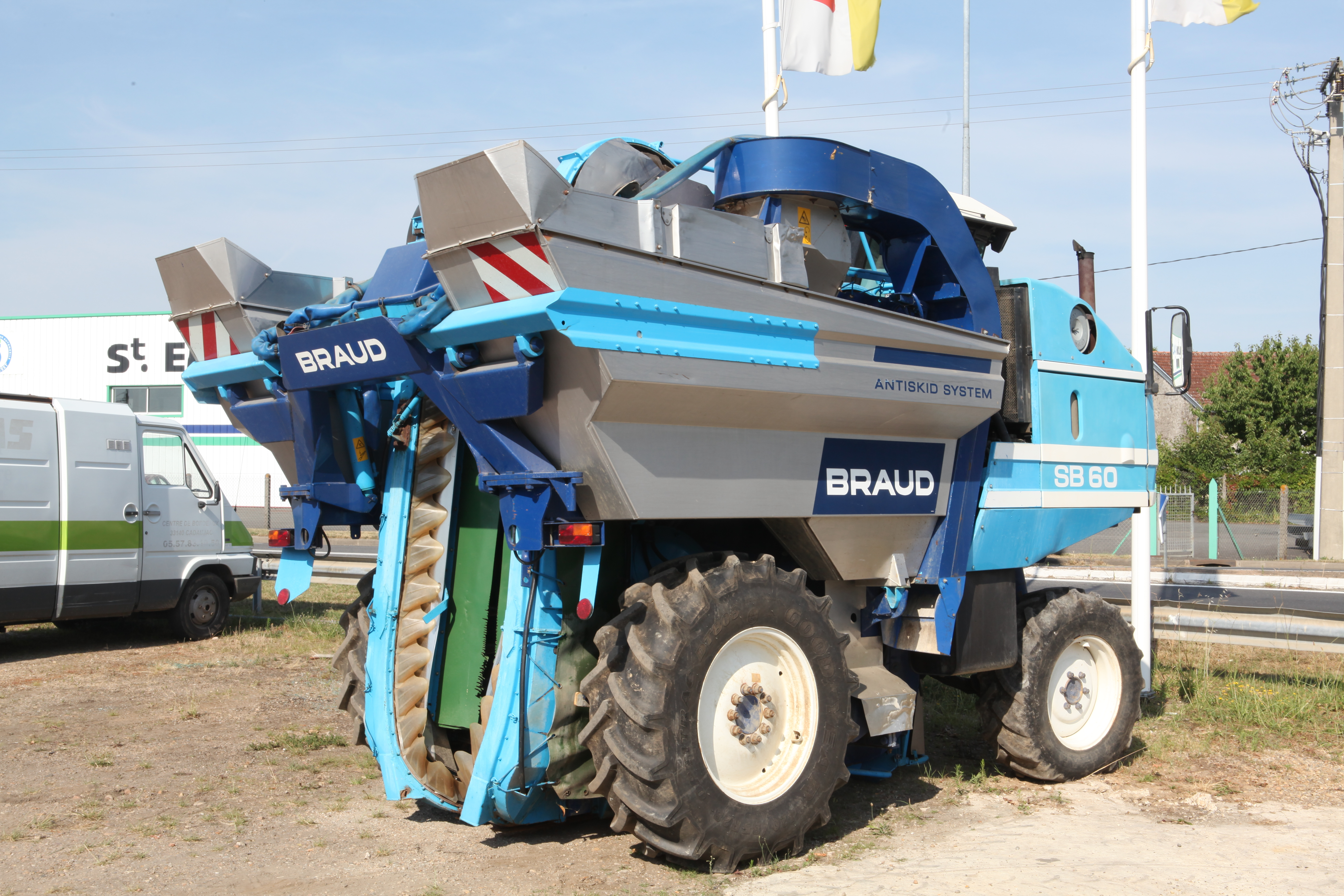 Braud SB 60 grape harvesting machine somewhere in Europe